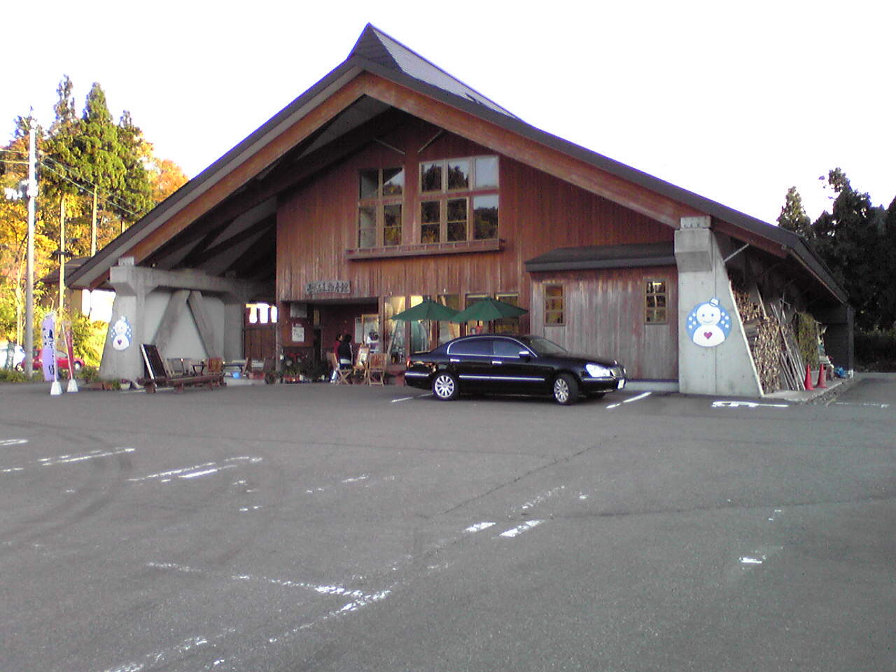 Local products shop at Michinoeki Yuki no Furusato Yasuzuka in Joestu City, Niigata Prefecture, Japan